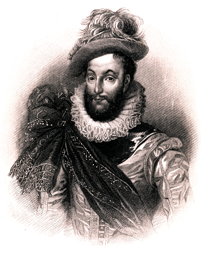 An engraved portrait of Sir Walter Raleigh.